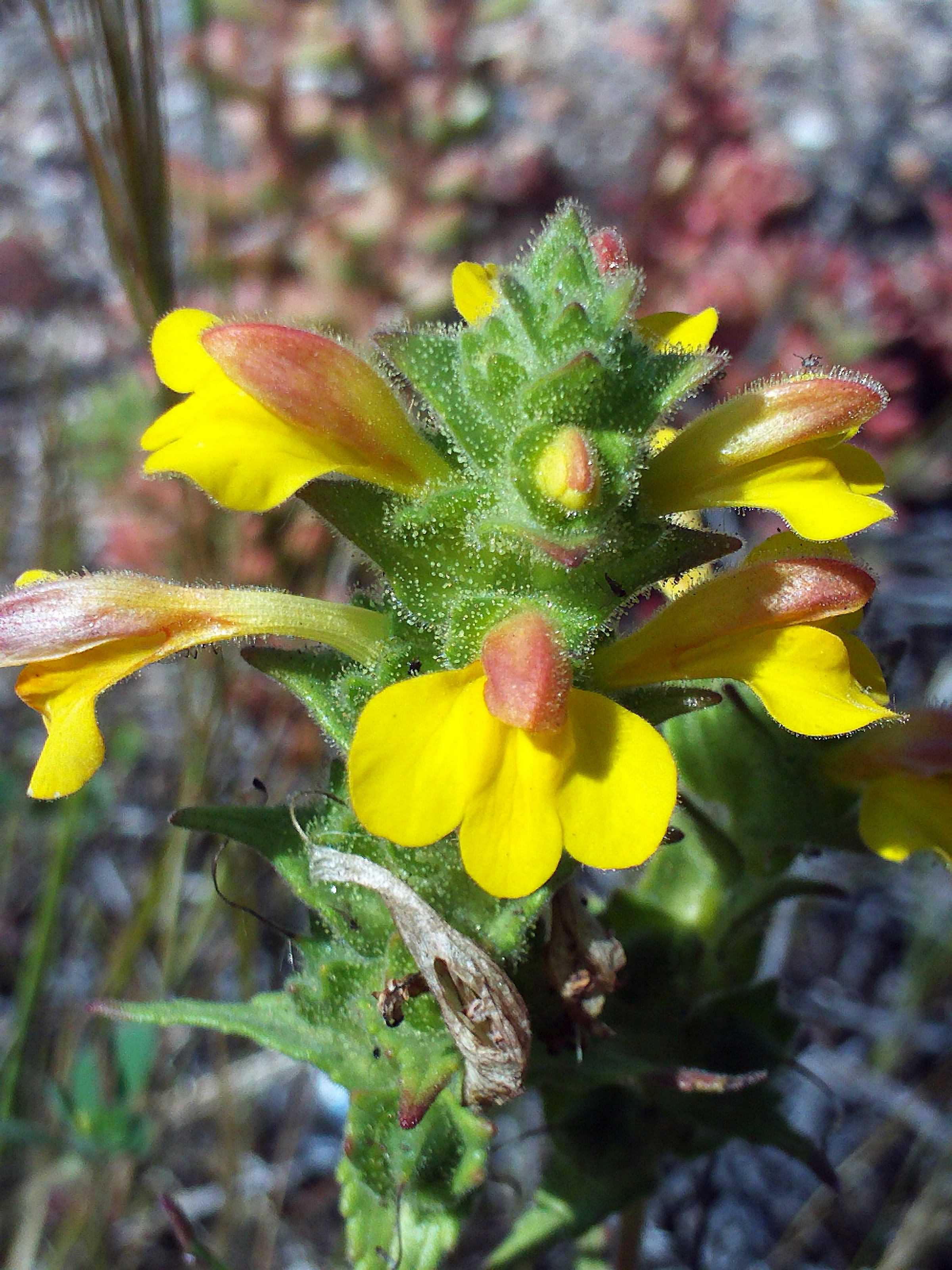 Bellardia trixago var. flaviflora close up in Dehesa Boyal de Puertollano, Spain